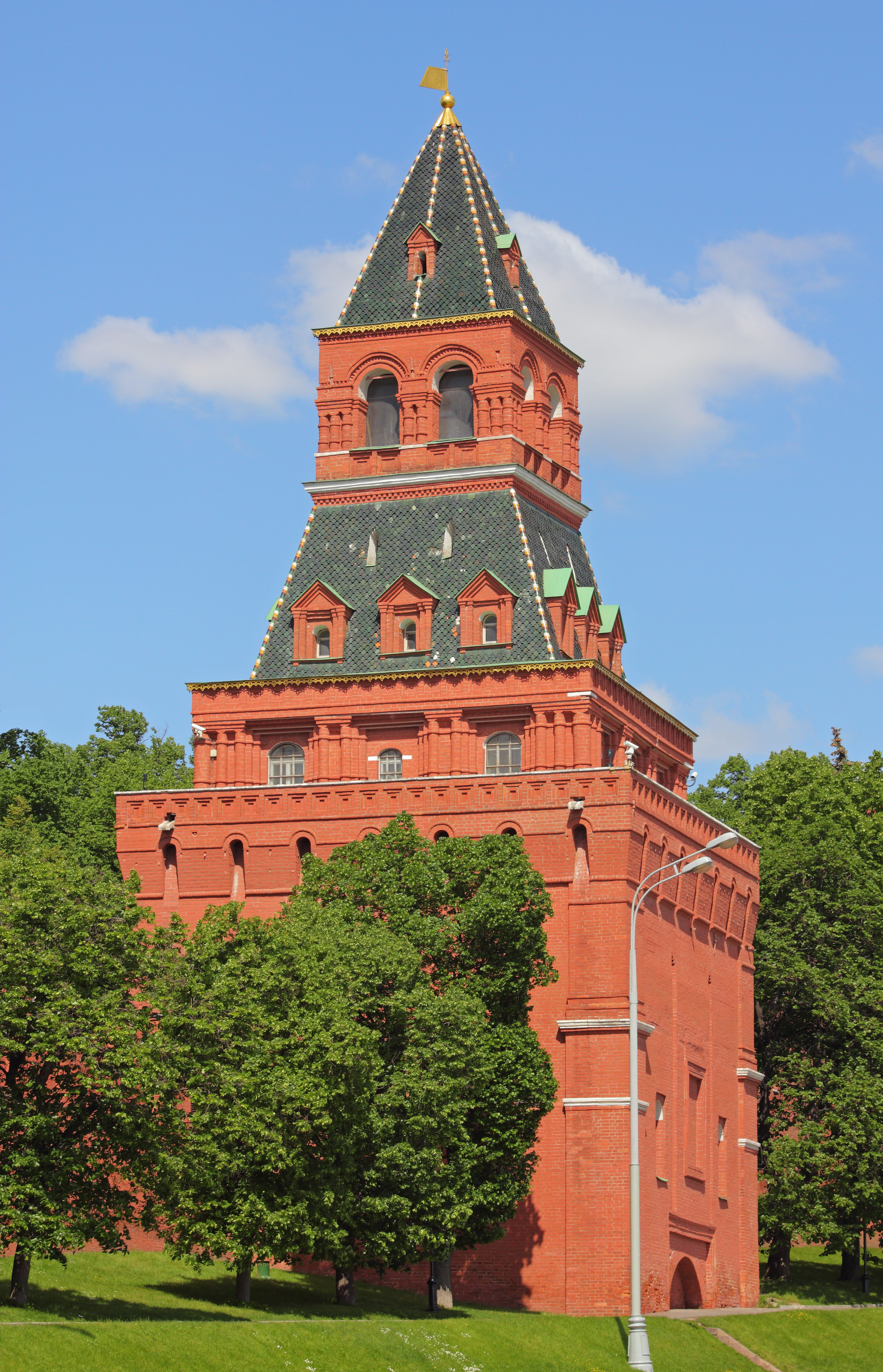 Moscow, Russia. Konstantino-Yeleninskaya (Constantine and Helene) Tower of the Moscow Kremlin.